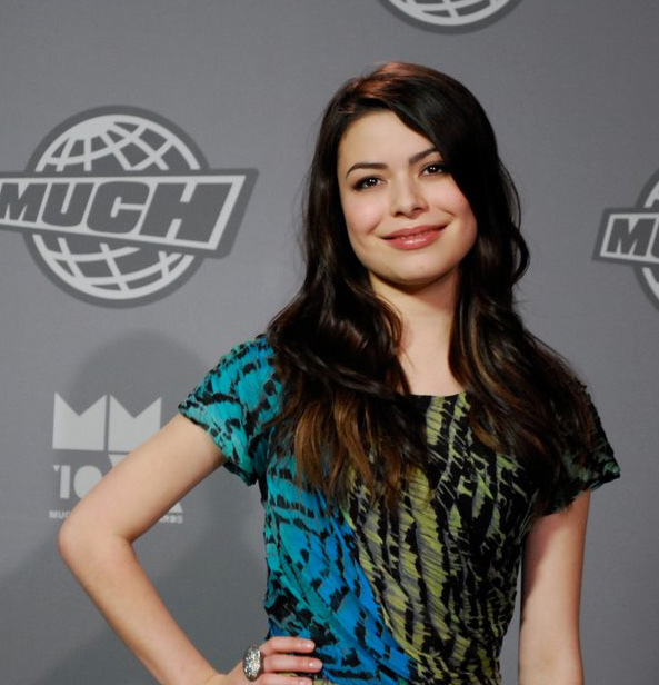 Miranda Cosgrove at the 2010 Much Music Video Awards